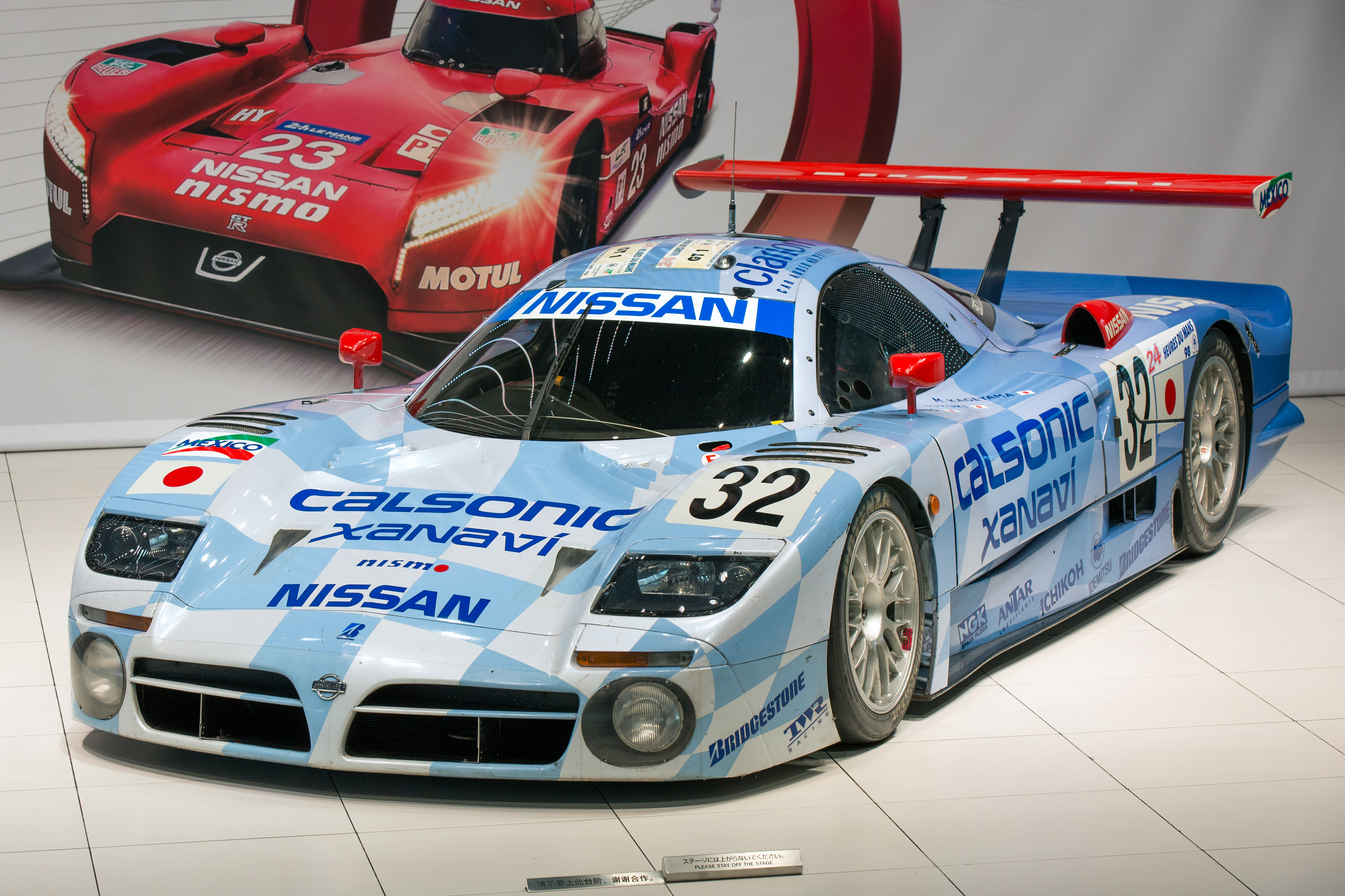 1998 Nissan R390 GT1 *not real #32 car